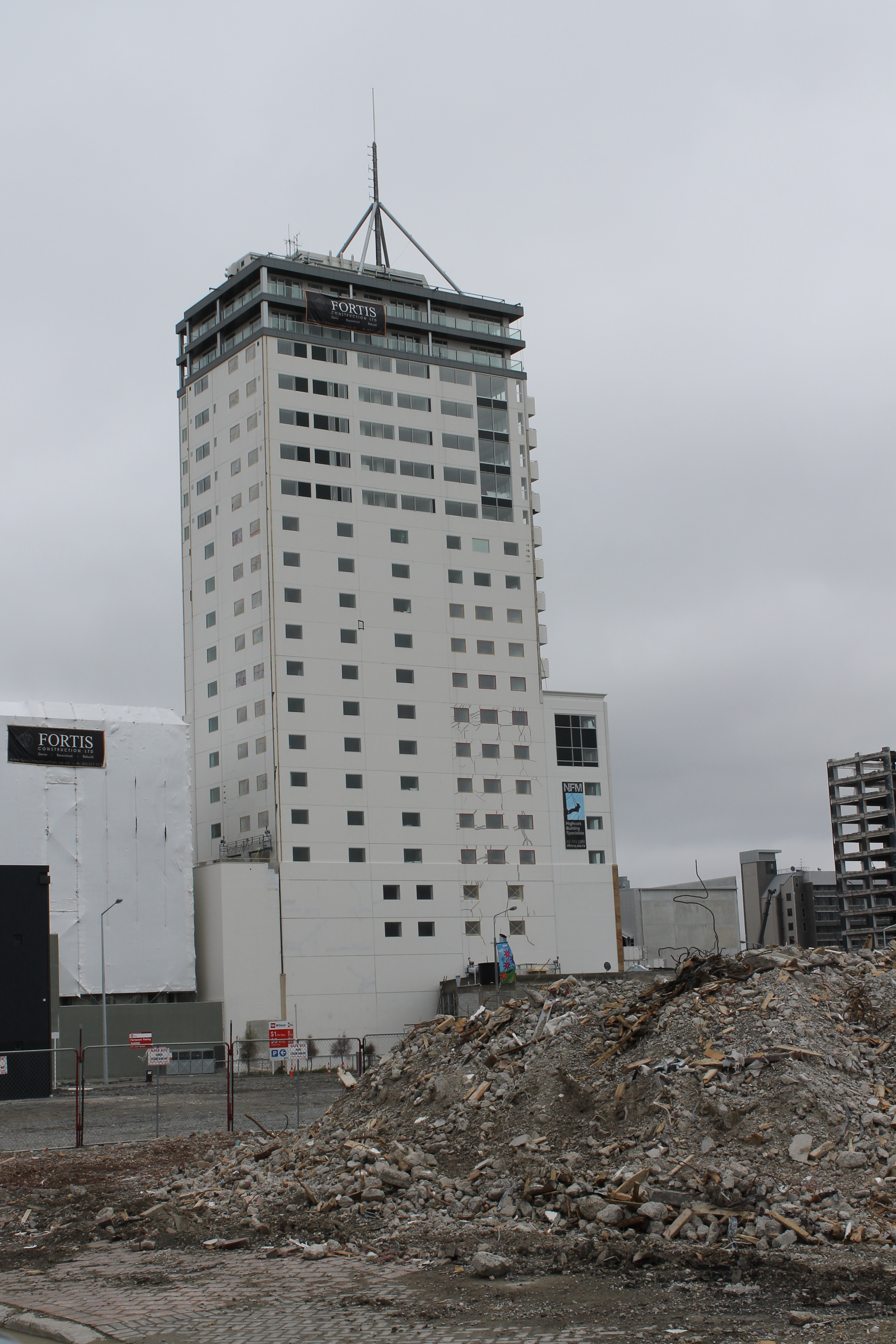 Radio Network House rubble, with Pacific Tower in the background.